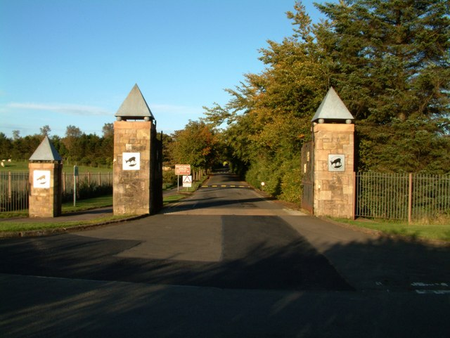 Entrance to Palacerigg Country Park Palacerigg Country Park is on a hillside overlooking Cumbernauld in North Lanarkshire.